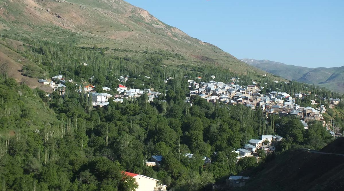 lerd